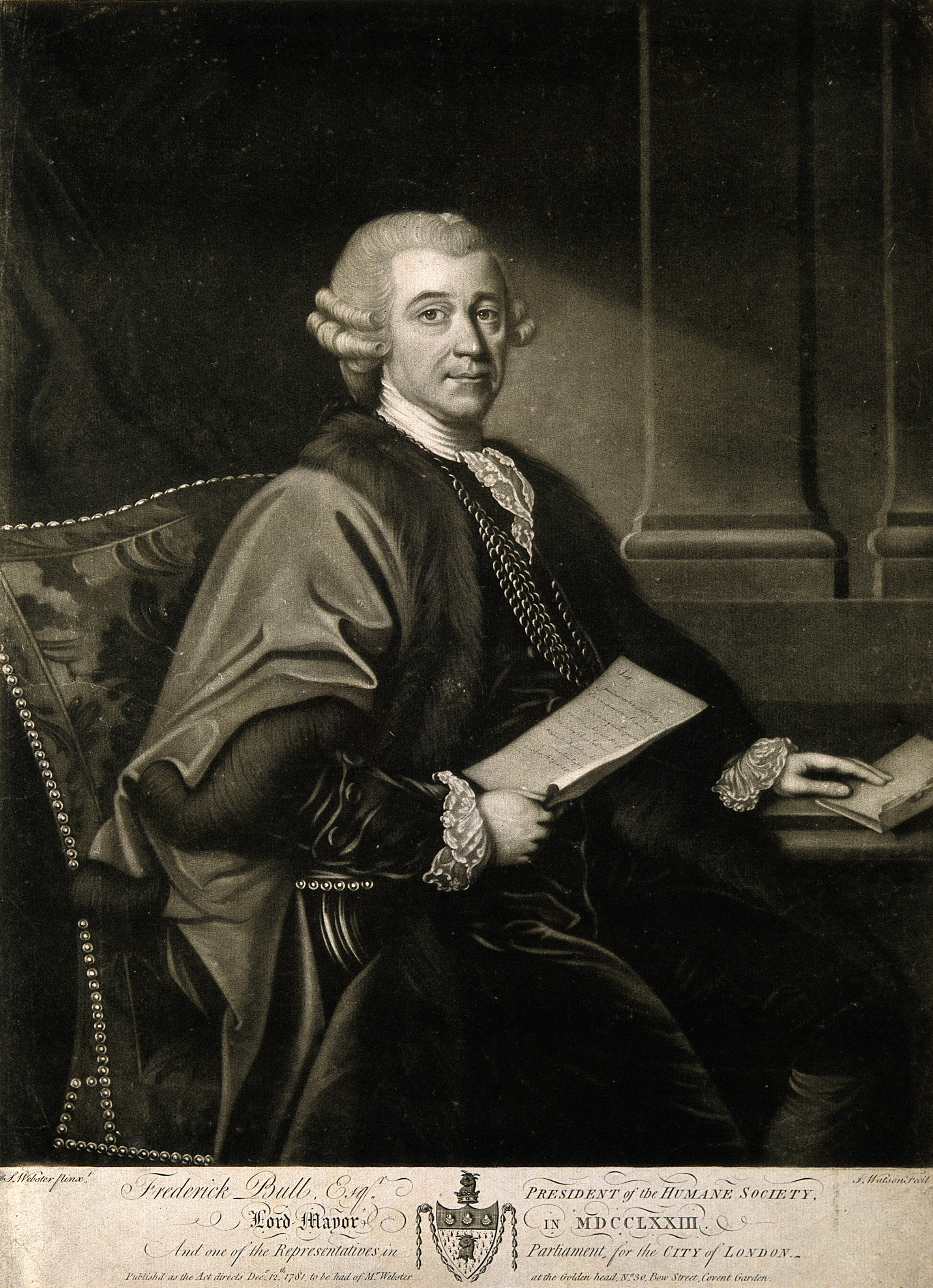 Frederick Bull. Mezzotint by J. Watson, 1781, after S. Webster. Iconographic Collections Keywords: portrait prints; mezzotints; J. Watson; Frederick Bull; bull, frederick, d.1784; S. Webster